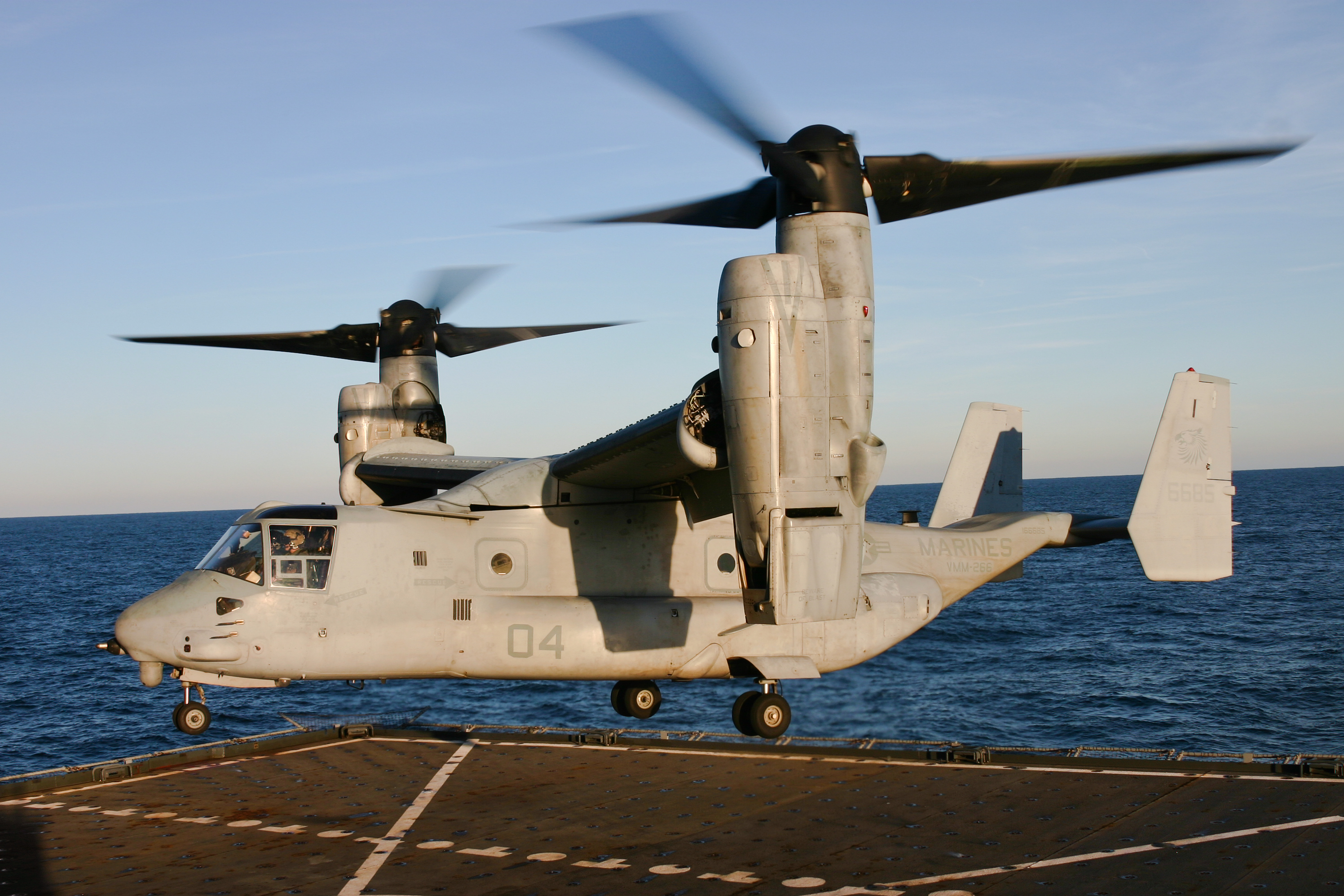 ATLANTIC OCEAN (Feb. 9, 2012) An MV-22 Osprey assigned to the Fighting Griffins of Marine Medium Tiltrotor Squadron (VMM) 266 makes a historic first landing aboard the Military Sealift Command dry cargo and ammunition ship USNS Robert E. Peary (T-AKE 5). The Osprey landed aboard Robert E. Peary while conducting an experimental resupply of Marines during exercise Bold Alligator 2012. Bold Alligator, the largest naval amphibious exercise in the past 10 years, represents the Navy and Marine Corps' revitalization of the full range of amphibious operations. The exercise focuses on today's fight with today's forces, while showcasing the advantages of seabasing. This exercise takes place Jan. 30 through Feb. 12, 2012 afloat and ashore in and around Virginia and North Carolina. #BA12 (U.S. Navy photo by Lt. j.g. Michael Sheehan/Released)